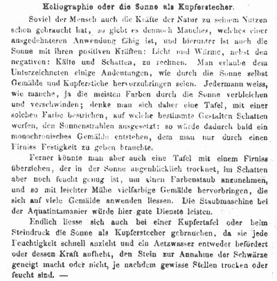 Extract from an article by Roth on the 'Hoffmeister Process' (Photographisches Archiv 1863). Reproduction of a text published in 'Allgemeiner Anzeiger der Deutschen'